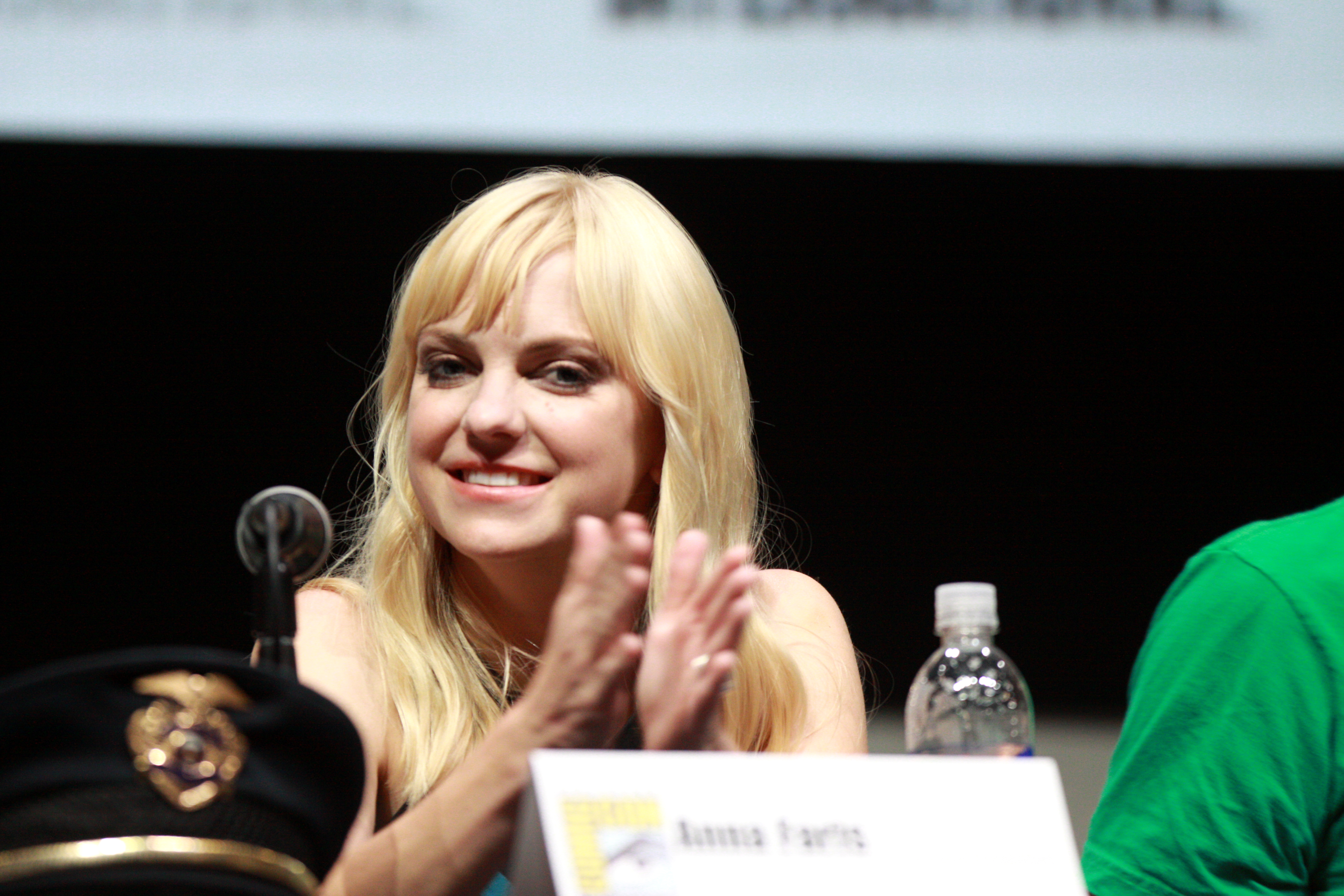 Anna Faris speaking at the 2013 San Diego Comic Con International, for "Cloudy with a Chance of Meatballs 2", at the San Diego Convention Center in San Diego, California.